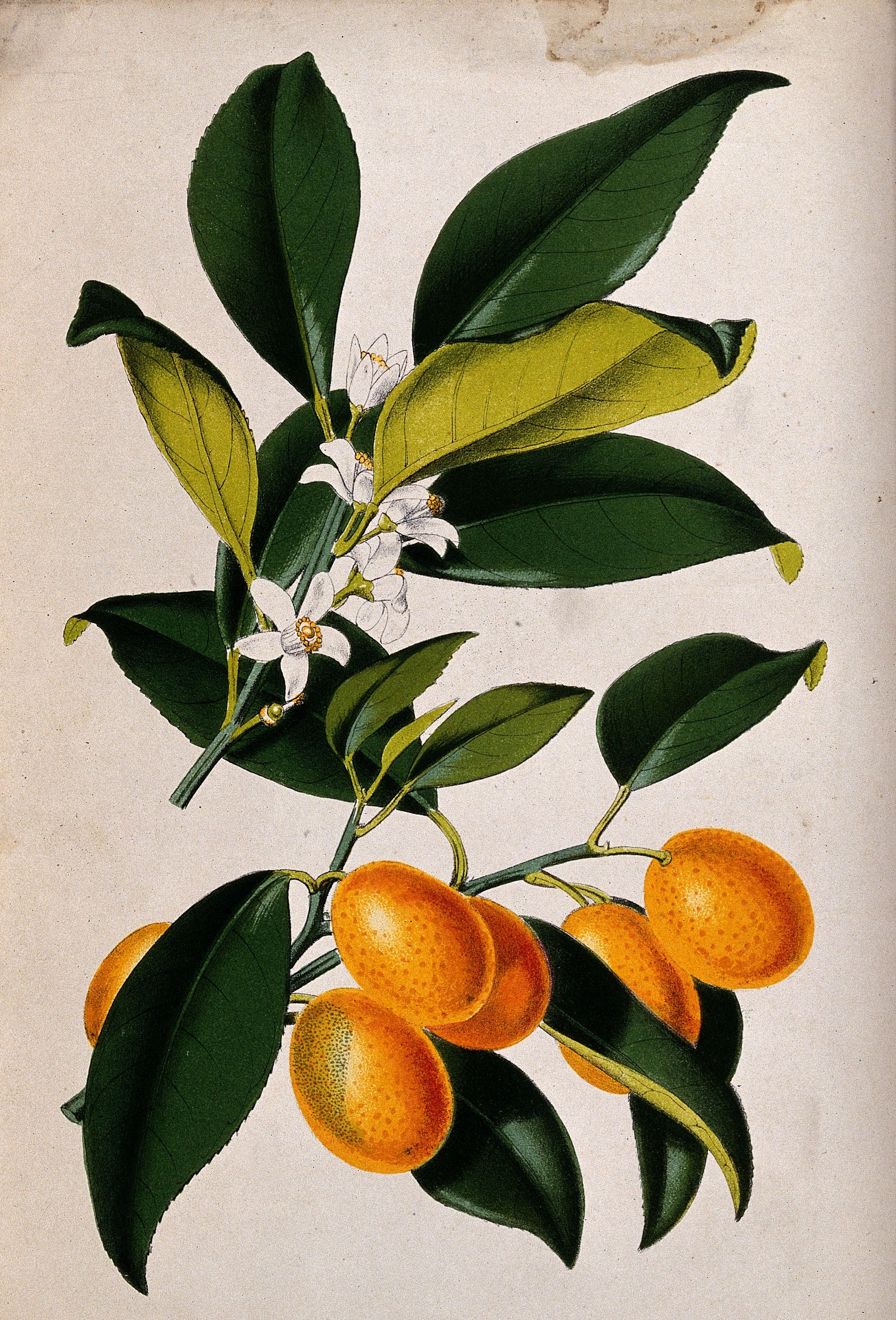 A lemon plant (Citrus japonica): flowering and fruiting stems. Coloured zincograph, c. 1876, after W. Fitch. Iconographic Collections Keywords: Botany; Walter Hood Fitch